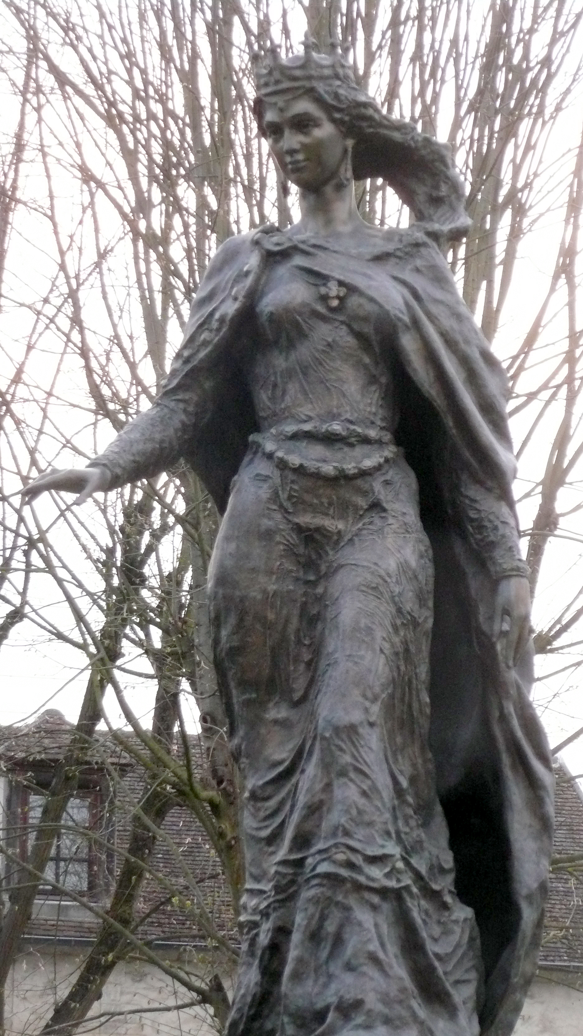 Statue of Anne of Kiev in Senlis (Oise, France) / detail.